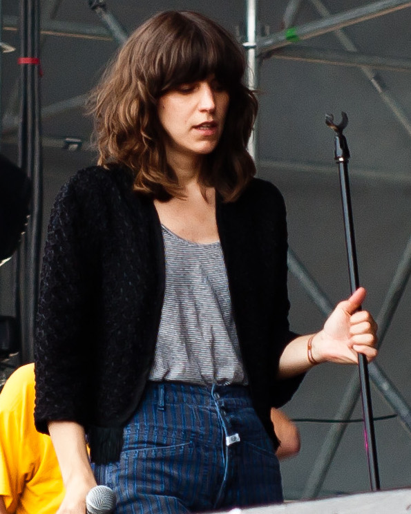 Eleanor Friedberger